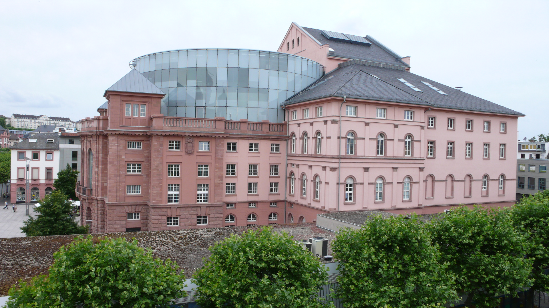 Mainz, States theater of Rhineland-Palatine, (since 1989, City theater before) Building by Georg Moller btw. 1829 and 1833